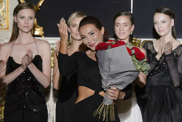 Eva Minge after her show on Paris Fashion Week